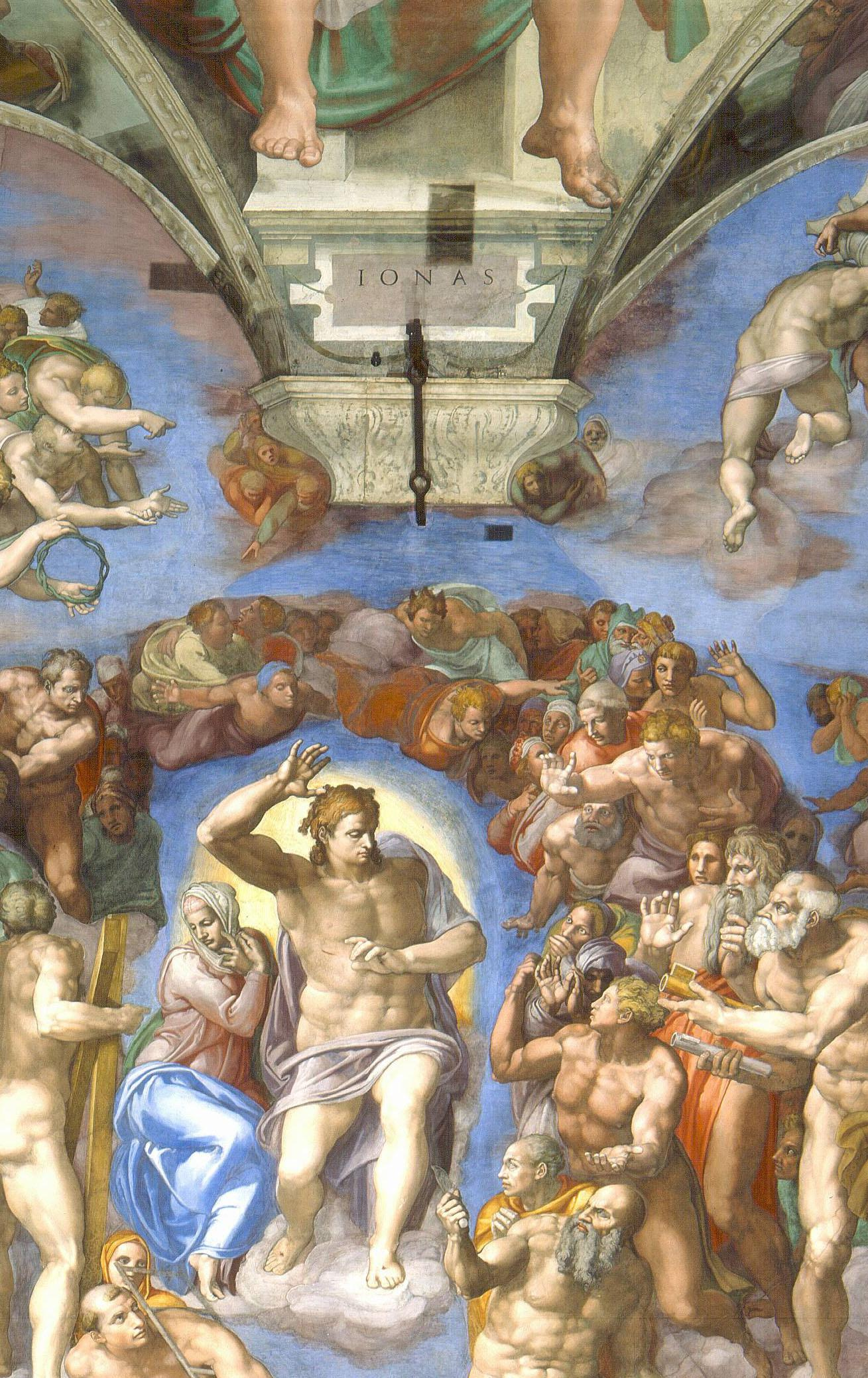 The Prophet Jonah and glorious Jesus, as depicted by Michelangelo in the Sistine Chapel